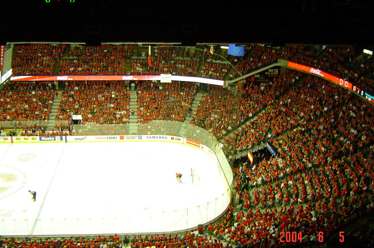 The "C of Red" during a Stanley Cup Finals game in Calgary in 2004